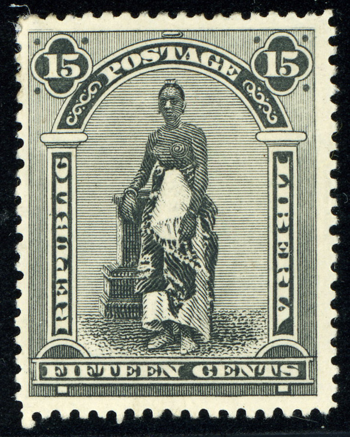 1896 issued 15 cents representing a Vai women Yvert 45